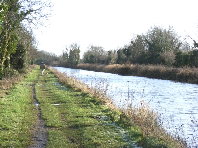 Royal Canal near Leixlip, Co. Kildare